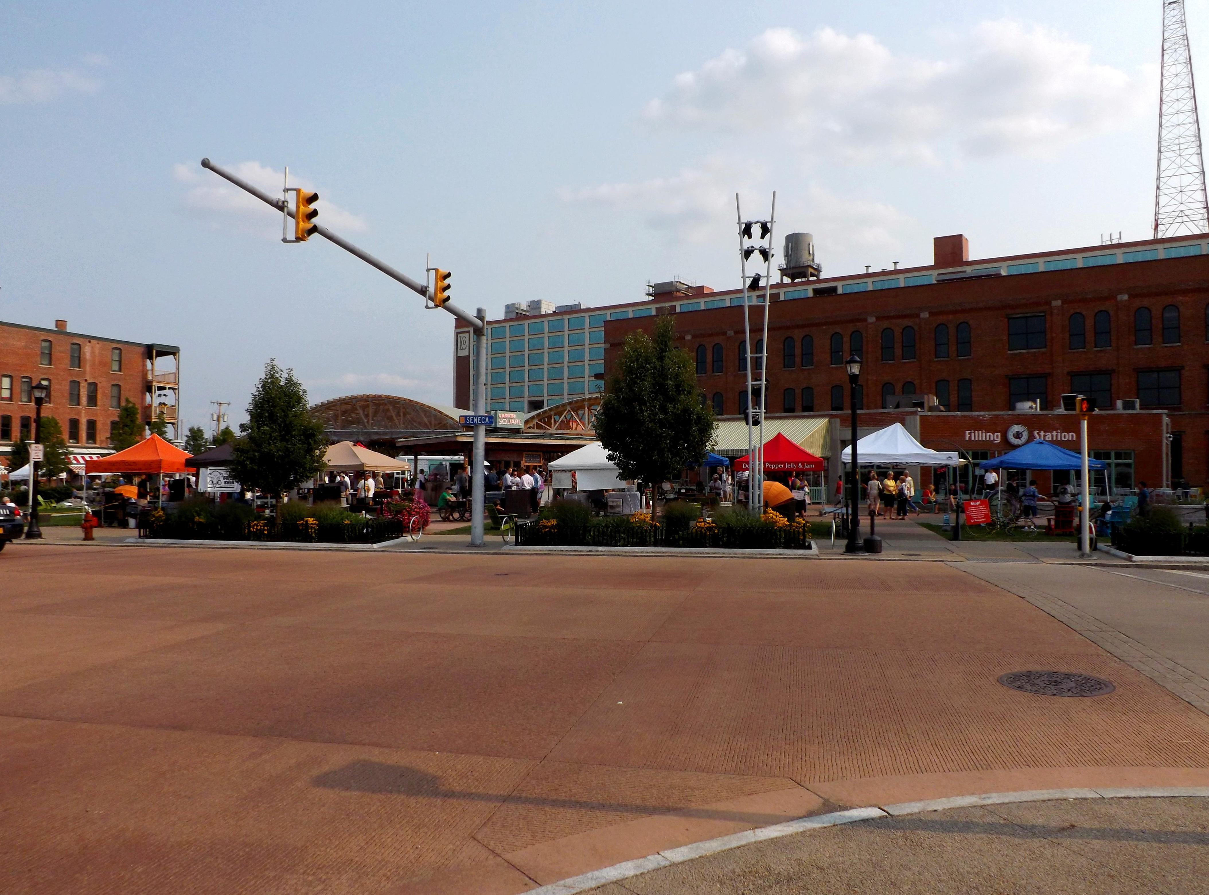 Unveiled in June 2012, Larkin Square is a public green space inspired by the plans of the Larkin Soap Company to build an outdoor plaza for its employees (the unrealized original was to be built on what's now the site of Engine 32/Ladder 5 Firehouse, just off the right margin of this photo). Today, aside from a pleasant break-time hangout for workers at the nearby office buildings, Larkin Square boasts a series of restaurants and recreational facilities, and plays host to a busy weekly schedule of special events such as the Thursday-night Larkin Market, seen here.